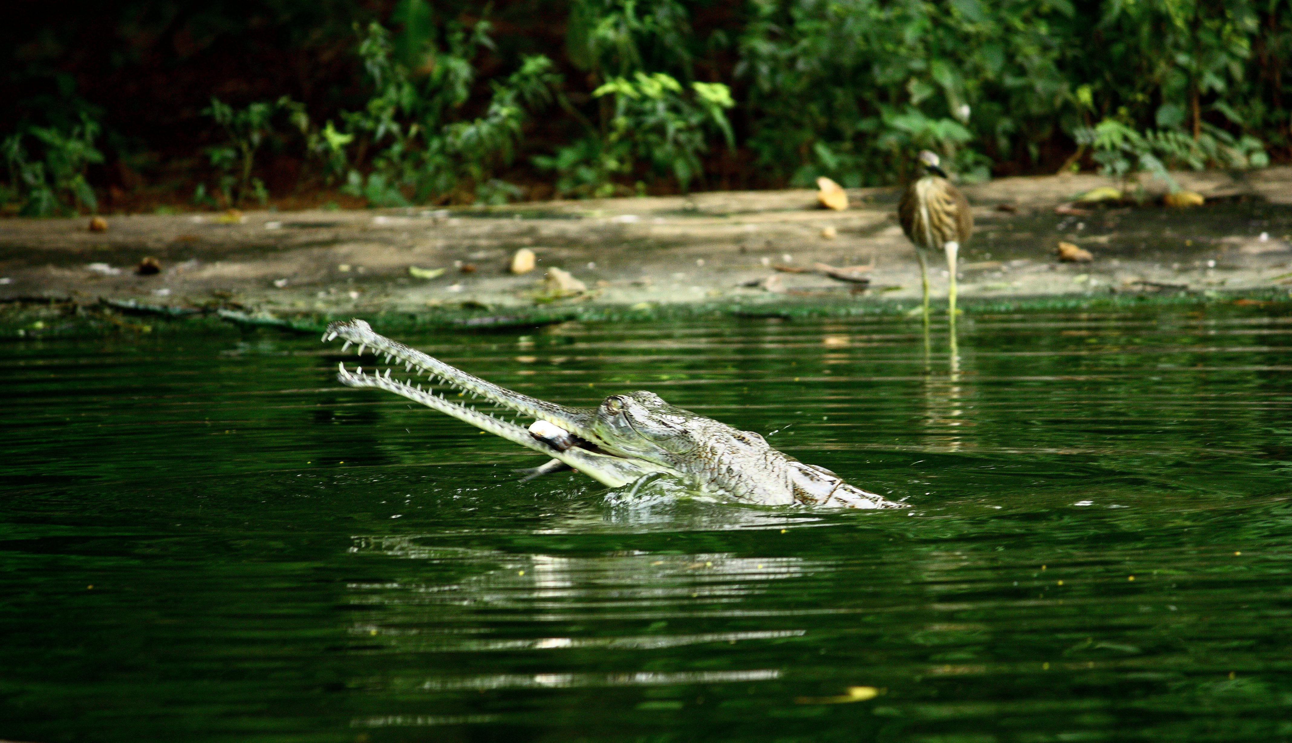 A gharial eating a fish at Indira Gandhi Zoological Park, Visakhapatnam, India.